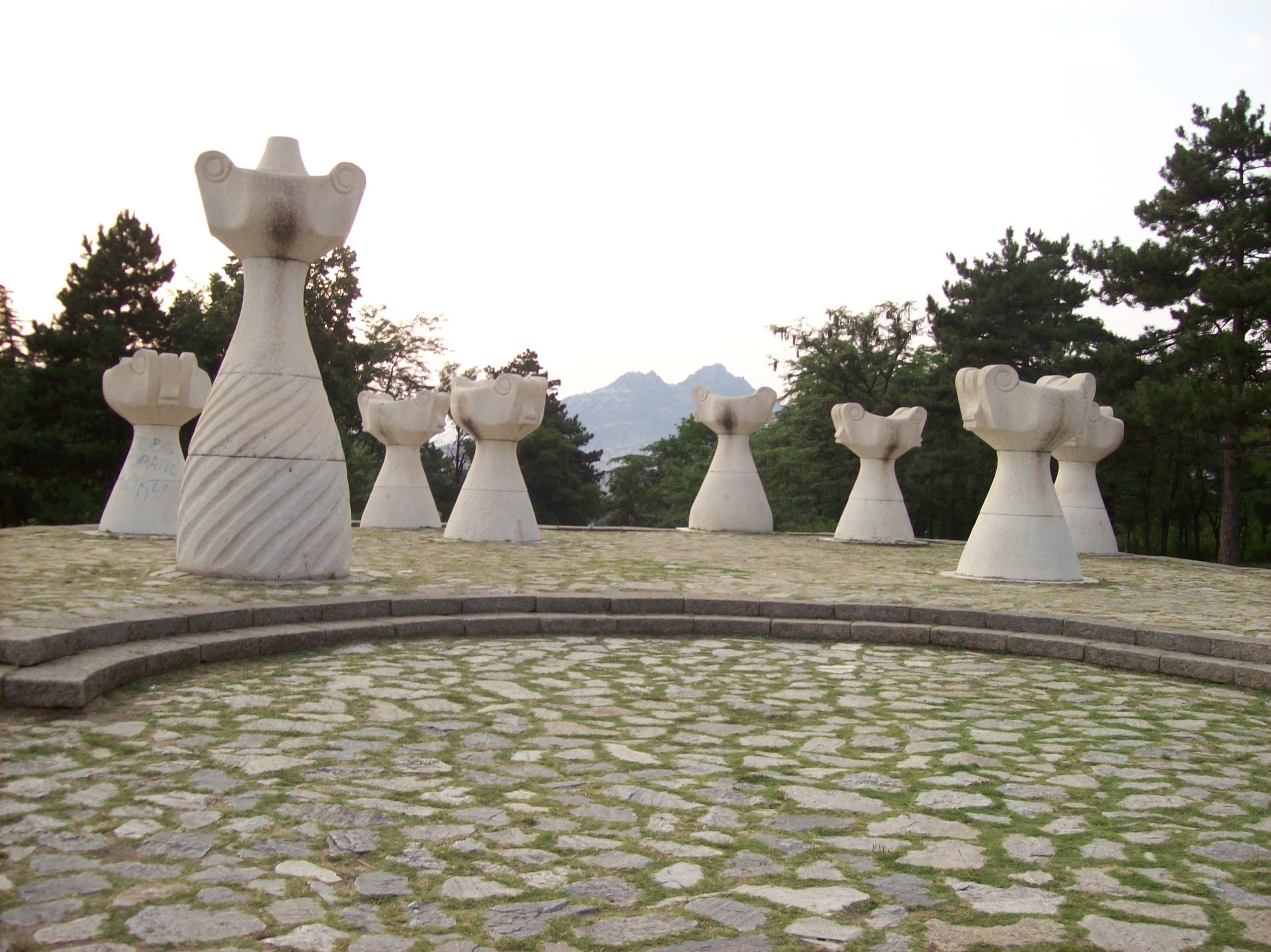 Prilep, Macedonia